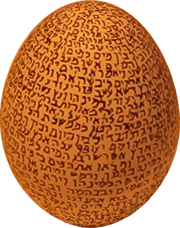 The first chapter of B'reshit, or Genesis, written on an egg, in the Jerusalem museum